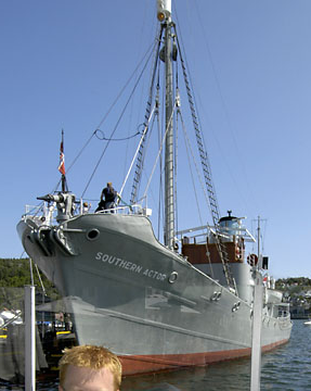 Clipped from File:Sandefjord Museumsbrygga 2.jpg